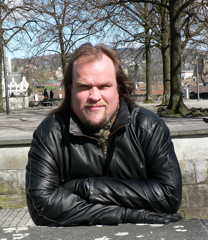 Bass-Baryton Juha Uusitalo in Zürich, Switzerland.